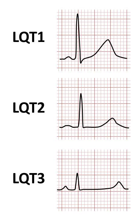 Cartoons of ECGs showing typical ECG patterns from three commonest forms of inherited Long QT syndrome. LQTS type 1 (LQT1) commonly shows a broad-based T wave pattern, LQTS type 2 (LQT2) shows notched or bifurcated T waves, and LQTS type 3 (LQT3) shows a late-appearing T wave with a prolonged ST segmenAdapted from Farwell and Gollob 2007 Can J Cardiol.